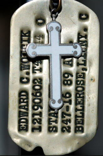 Photo of Woicik's grandfather's military ID tags ("dog tags").